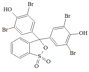 Bromophenol blue, structure formula drawn by Paginazero